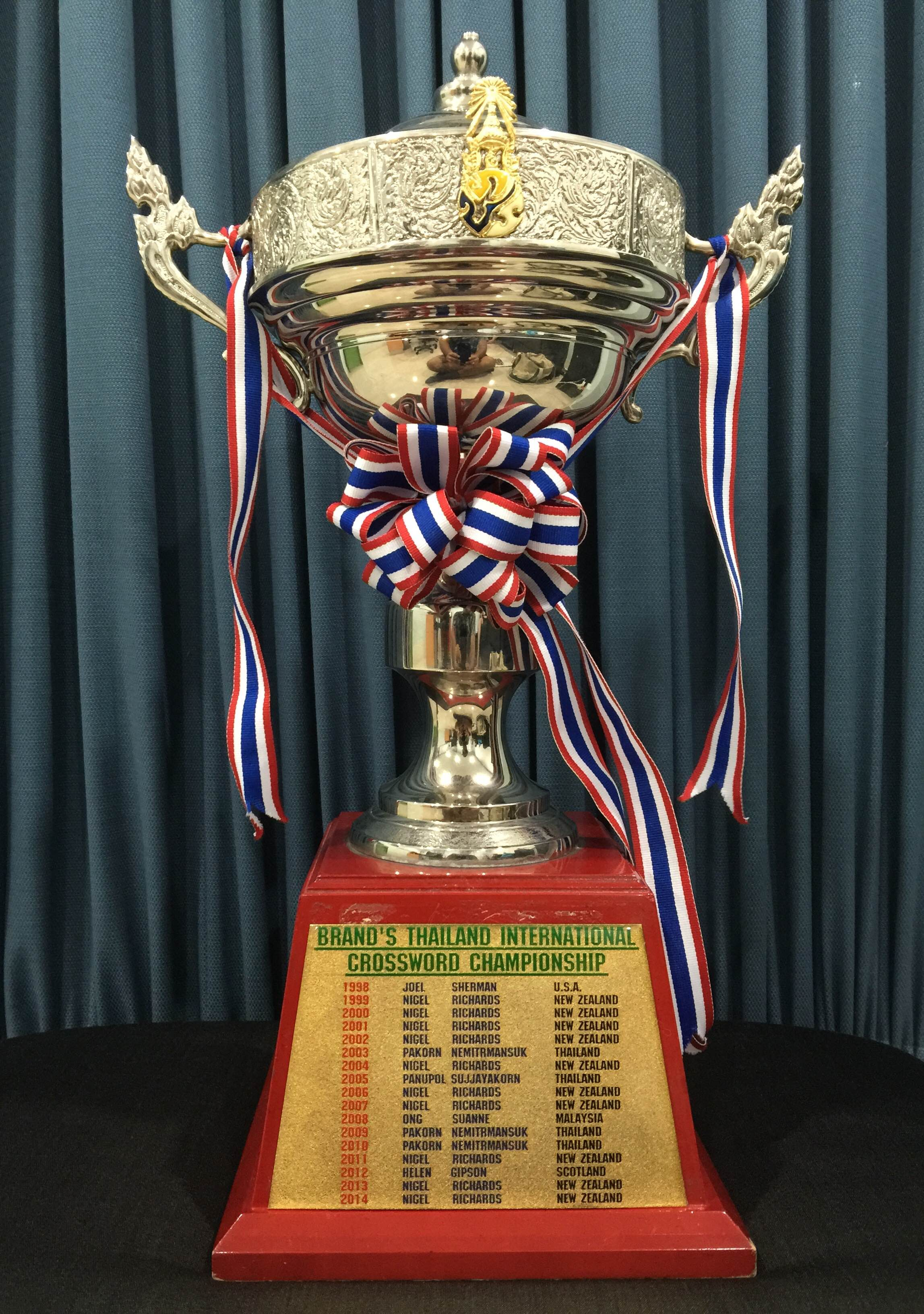 A photo of the trophy honouring the winner of the annual Brand's Crossword Game King's Cup, taken on 2015-07-01 by User:Poslfit.